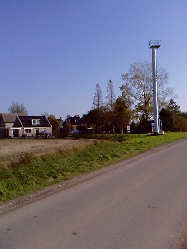 De Wacht, Binnenmaas municipality, the Netherlands